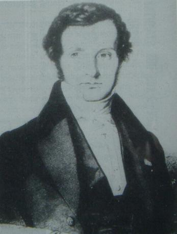 Also published in the corresponding German article